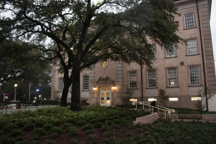 TCU Rainy Day